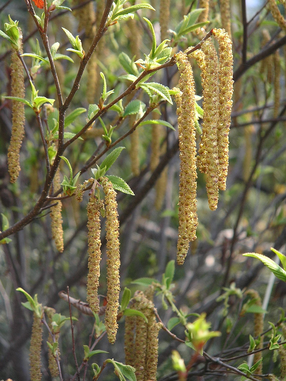 Flower YASHABUSHI